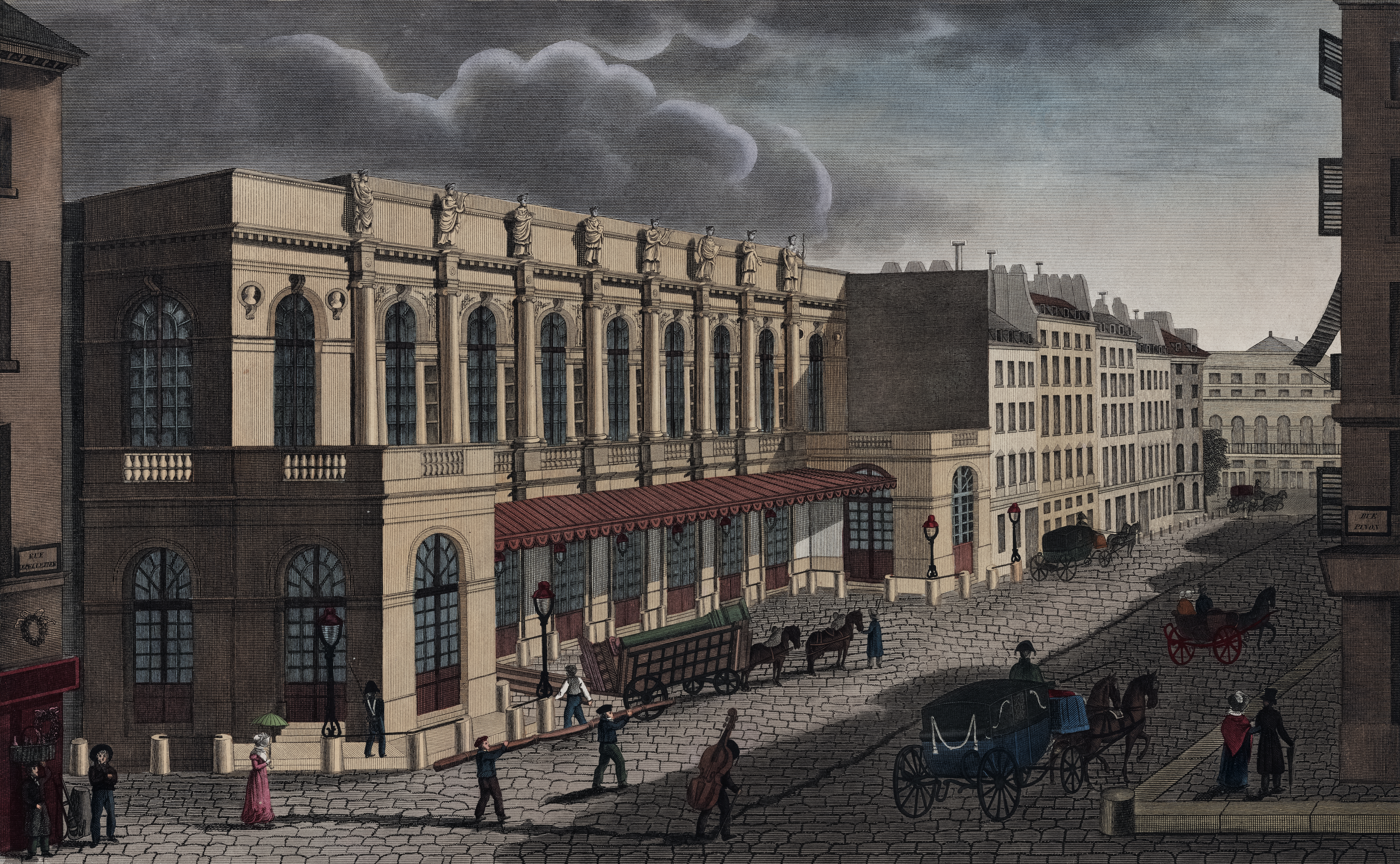 The print depicts the entrance and metal awning of the theater, above which stand the statues of the Muses upon eight columns, rising between the first-floor windows. A workman loads scenery on a cart, a musician carries a double bass on his back.